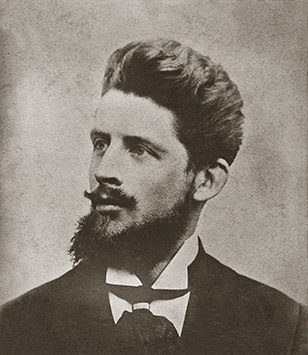 Grégoire Le Roy